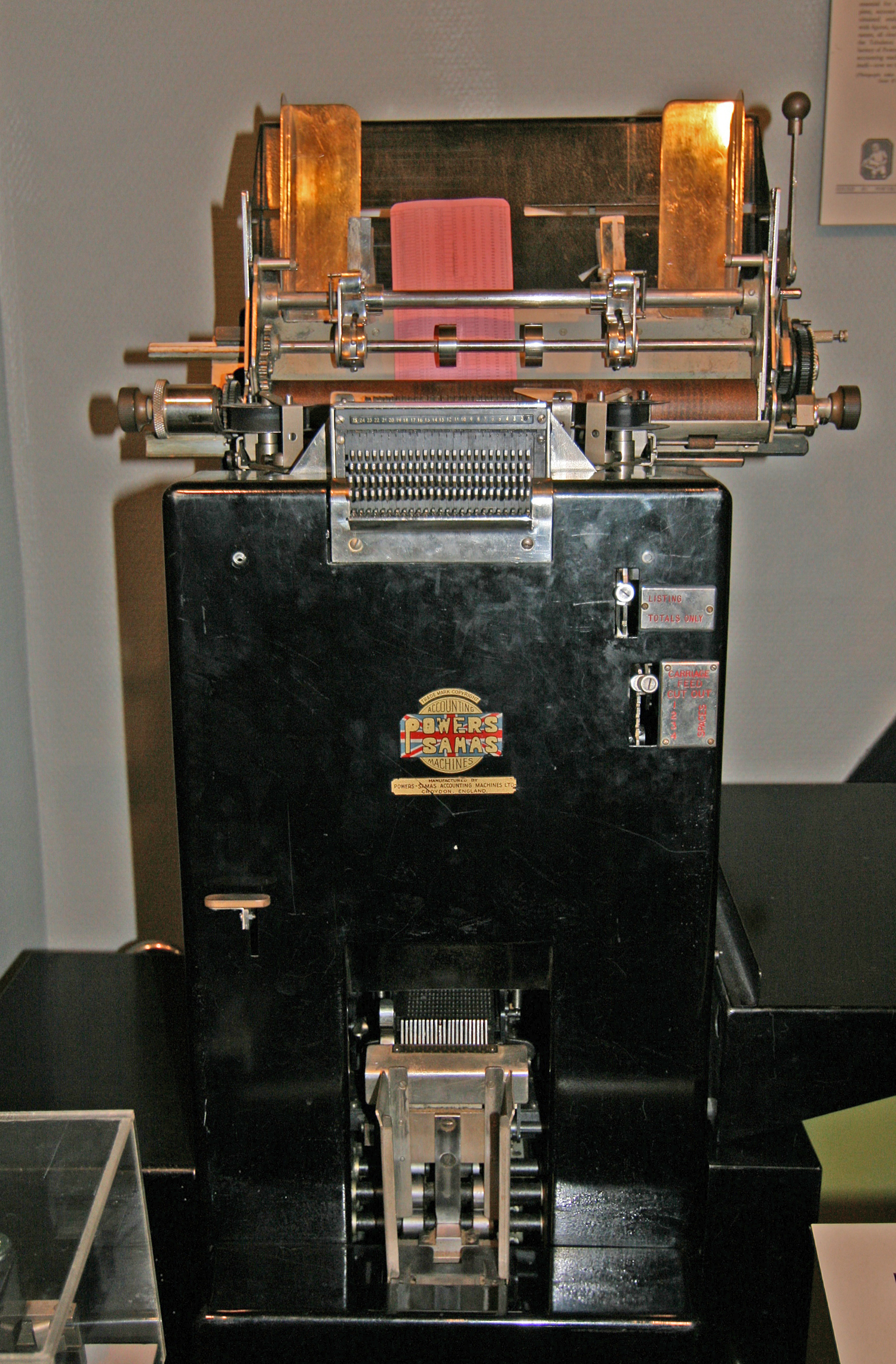 Accounting machine from UK manufacturer Powers-Samas. (Norwegian Technology Museum, Oslo.)